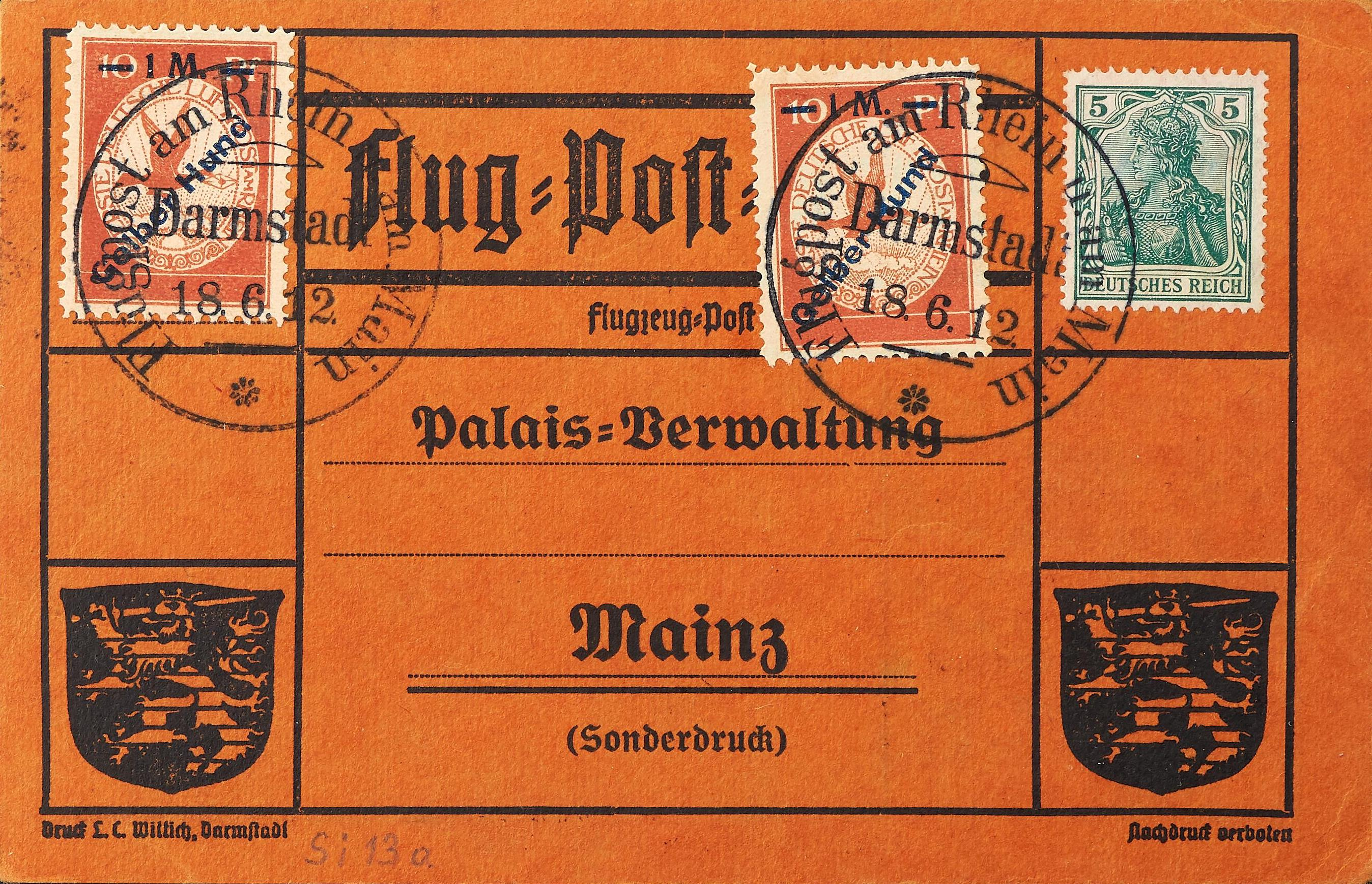 18 June 1912 postcard for flight from Frankfurt to Main